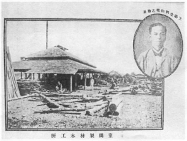 Kasama Seizai Mokkojo was a wood working company in Japan.